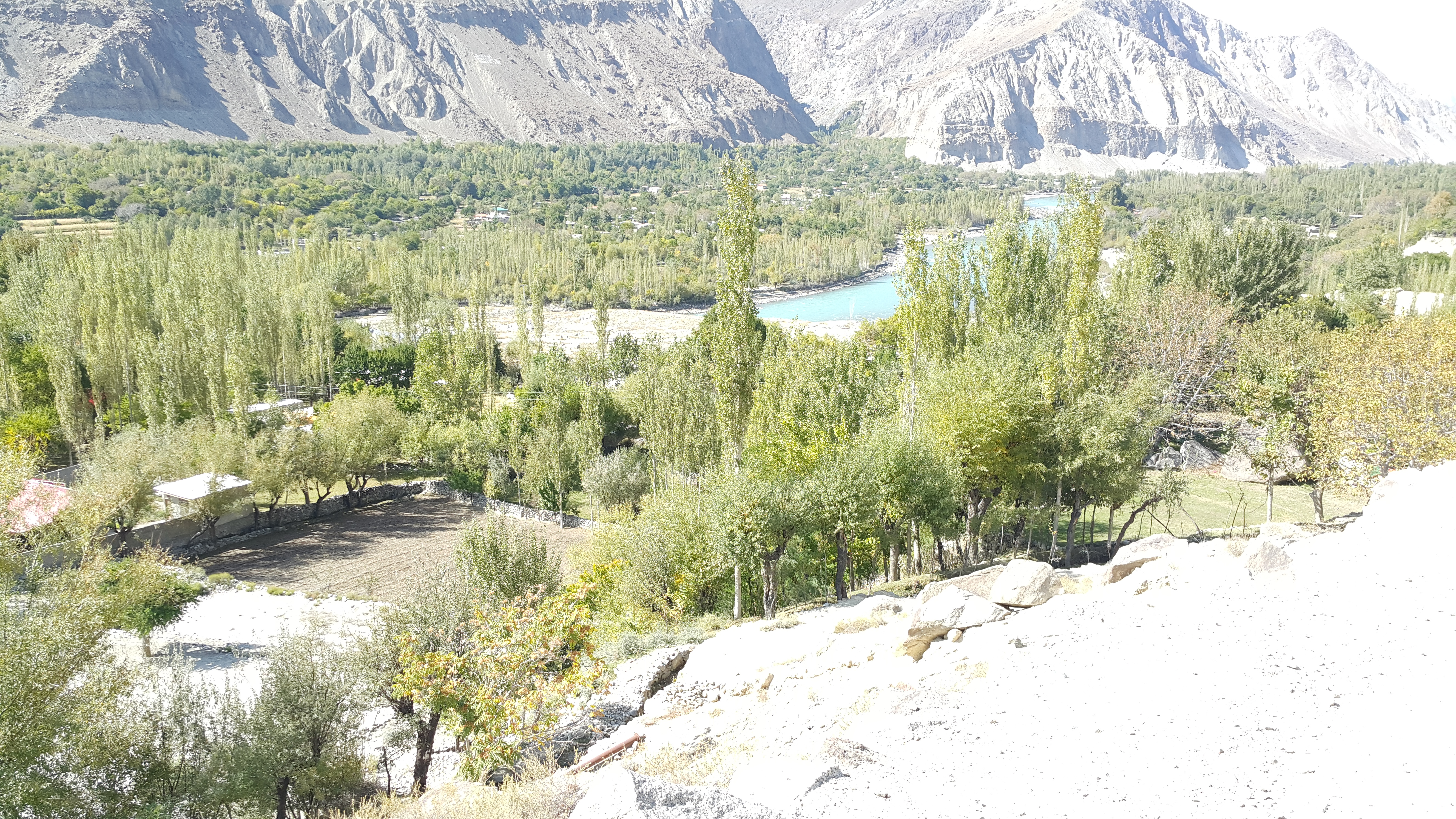 View of Gulmuti from Domorah. River and Greenery can be seen.